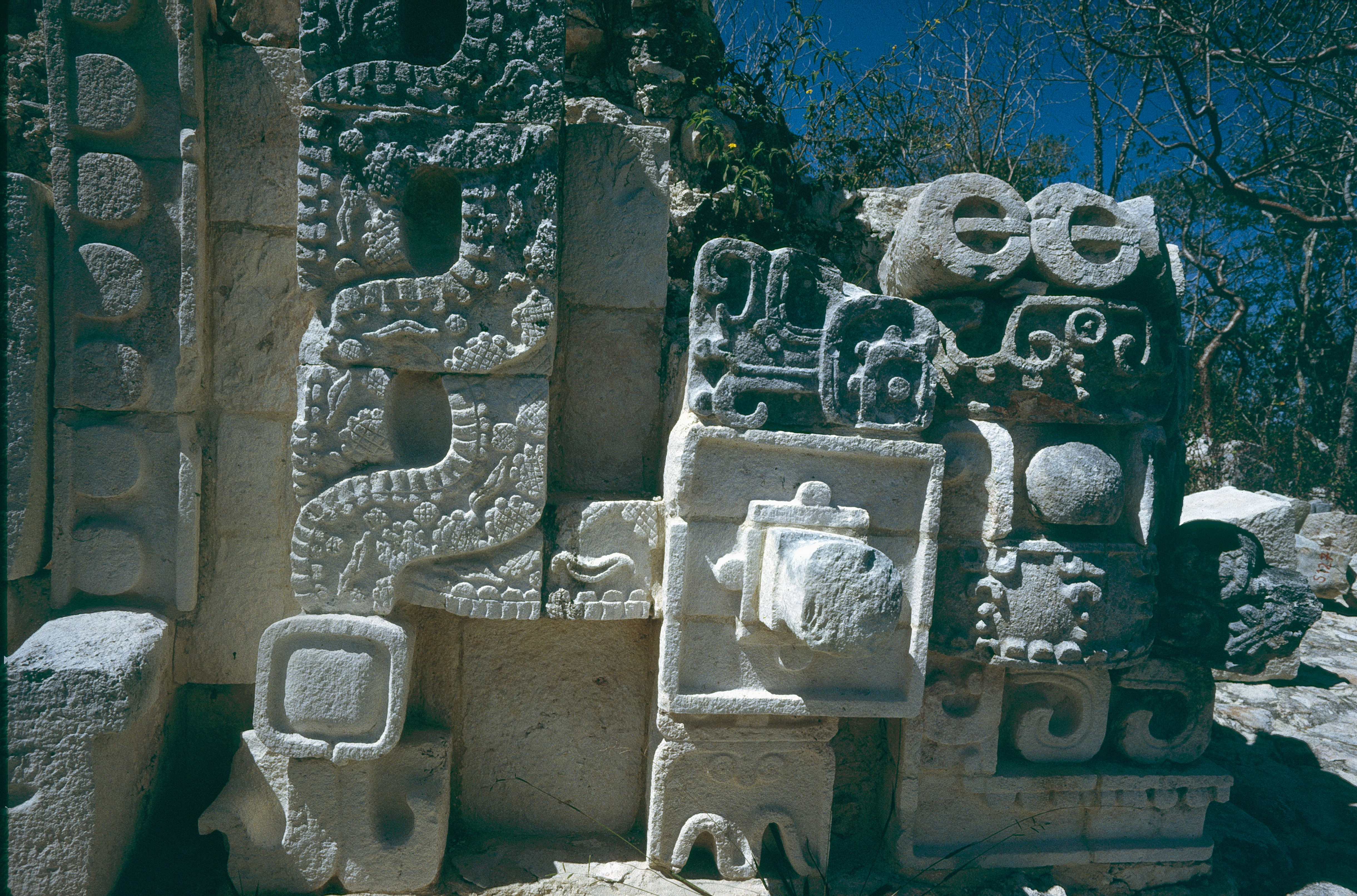 Kabah, Yucatan, Mexico: building Manos Rojas, facade of second story